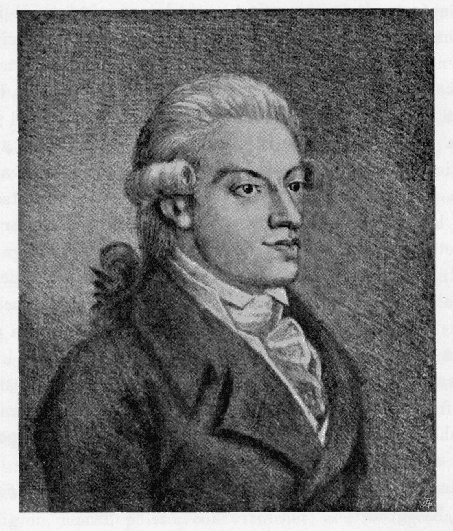 Thomas Thorild, comtemporary engraving